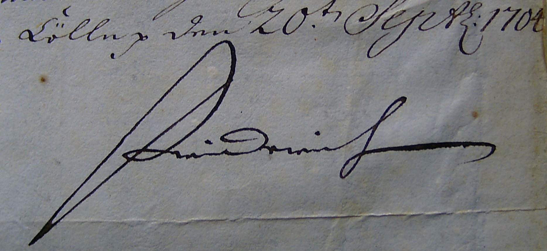 Friedrich I. (Preußen), signature, 1704